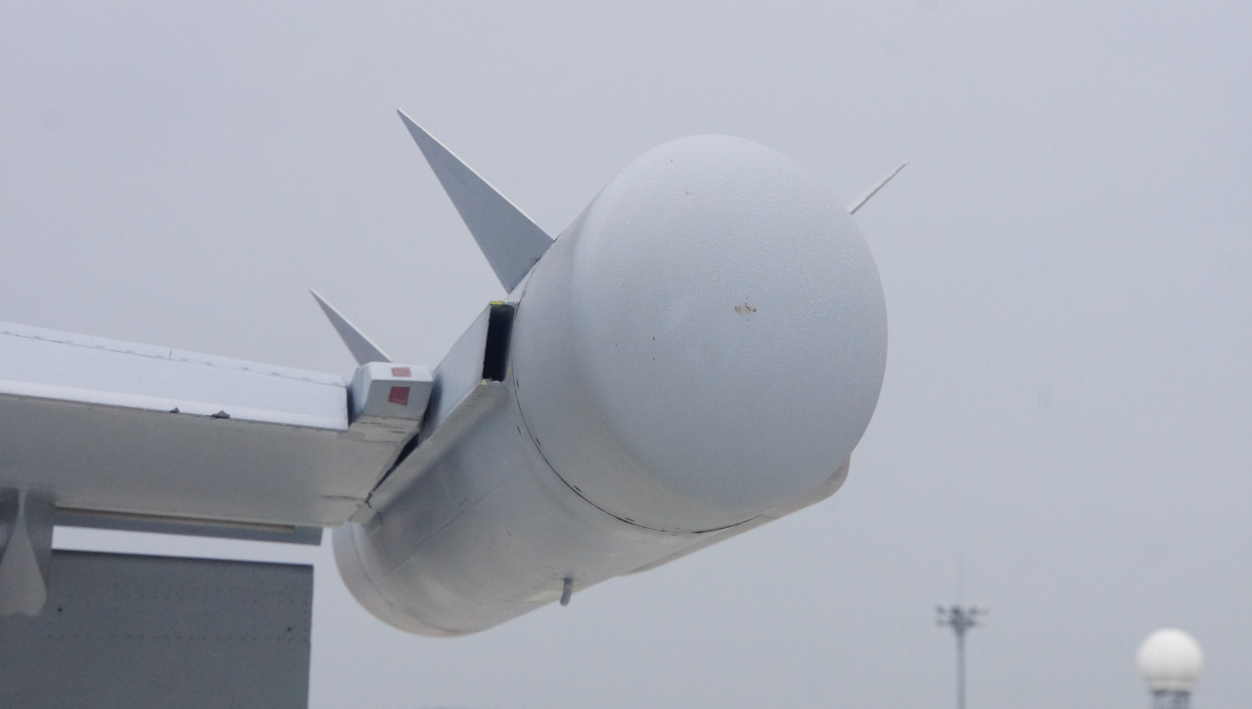 AN/ALQ-218(V)2 mounted on an EA-18G (No.166942, VAQ-135) at MCAS IWAKUNI 20150503-02